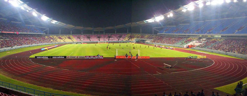 The Sarawak Stadium during a Malaysian Premier League match between Sarawak and Kedah on December 4th, 2005.